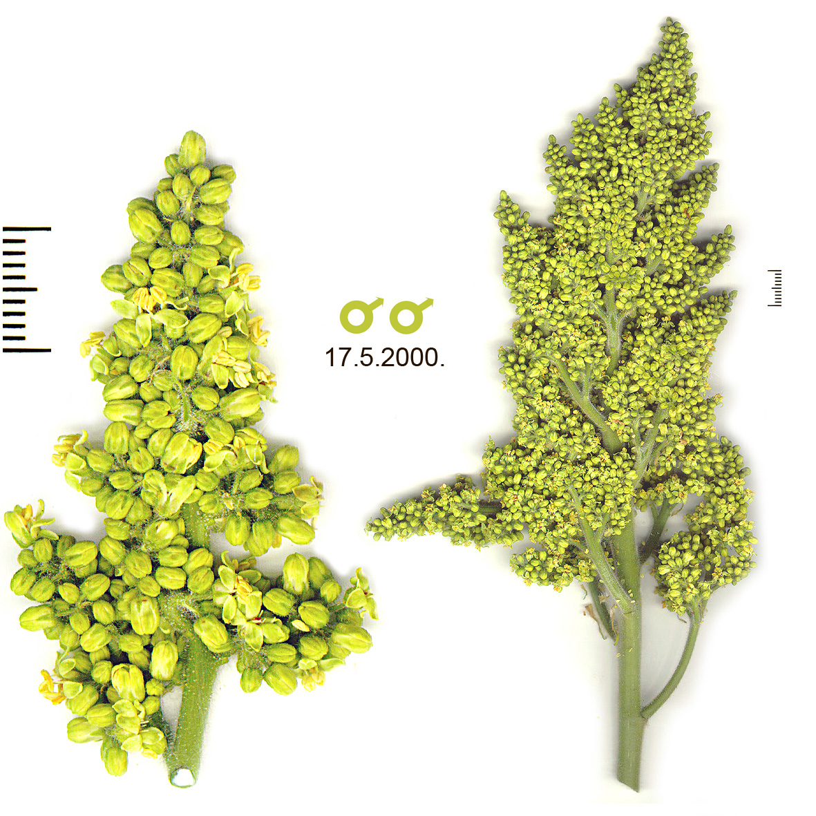 Rhus typhina male inflorescence